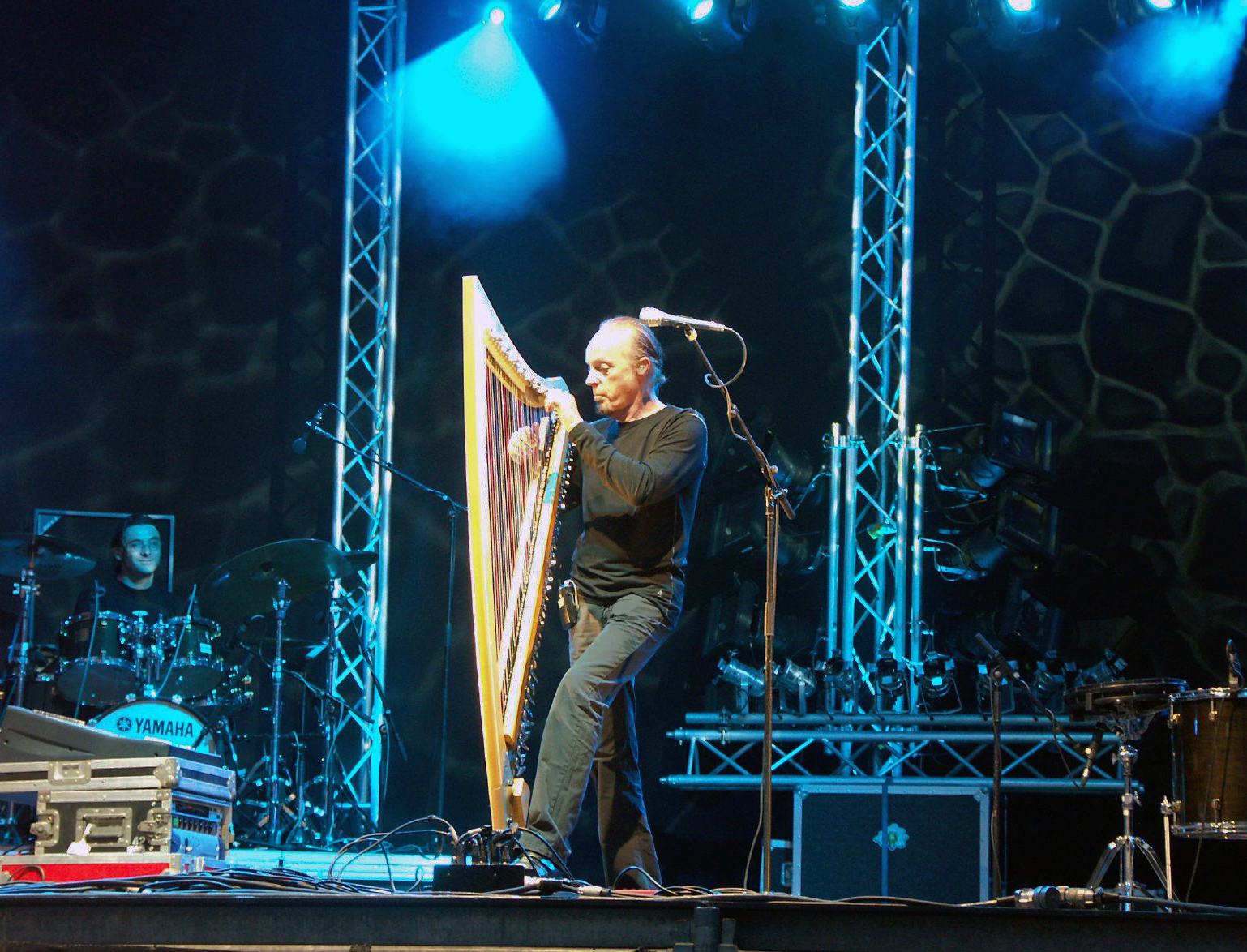 Alan Stivell at the Music Festival "Bardentreffen" in Nuremberg (Germany) 2007